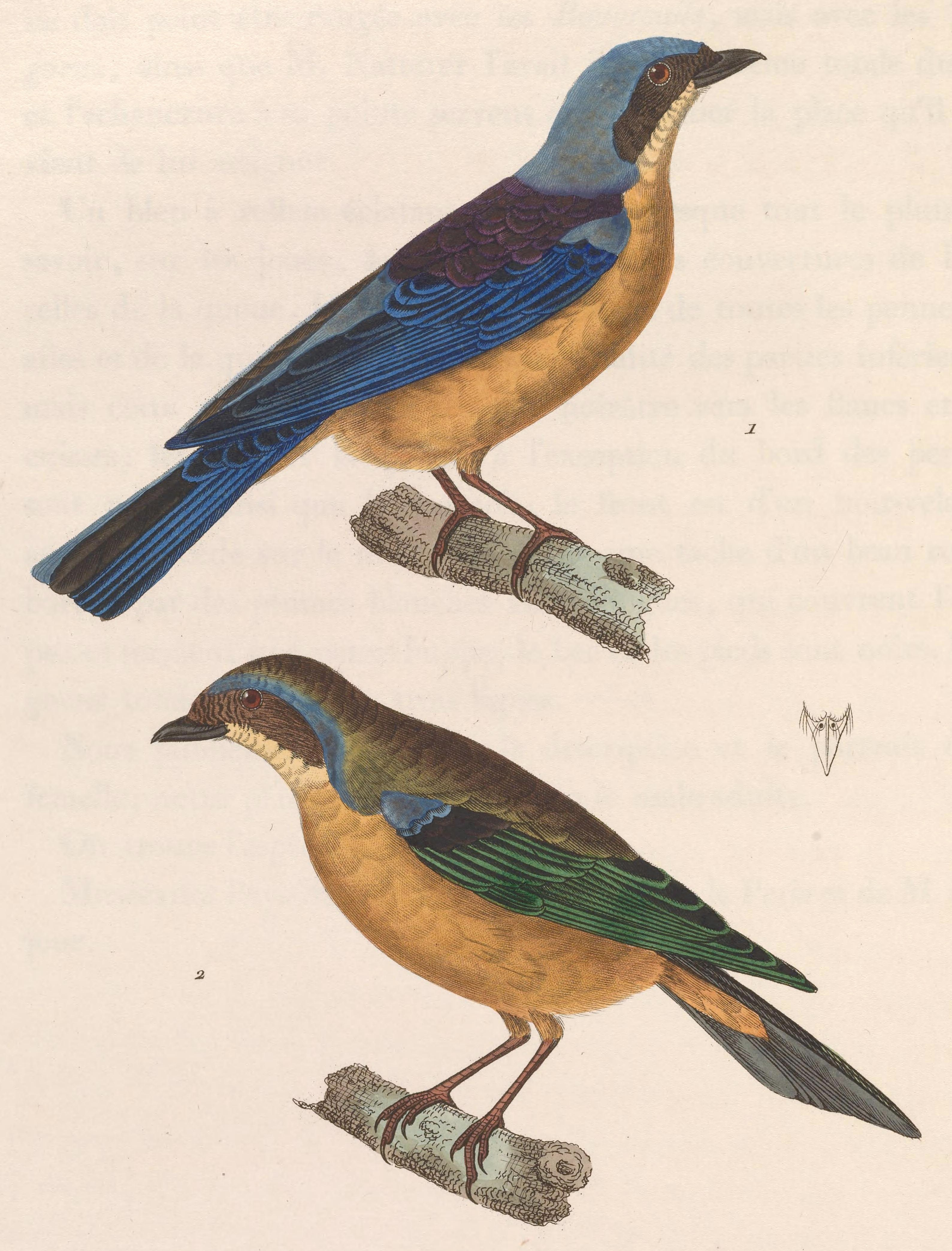 « Tanagra vittata » = Pipraeidea melanonota melanonota (Subspecies of Fawn-breasted Tanager) - male and female